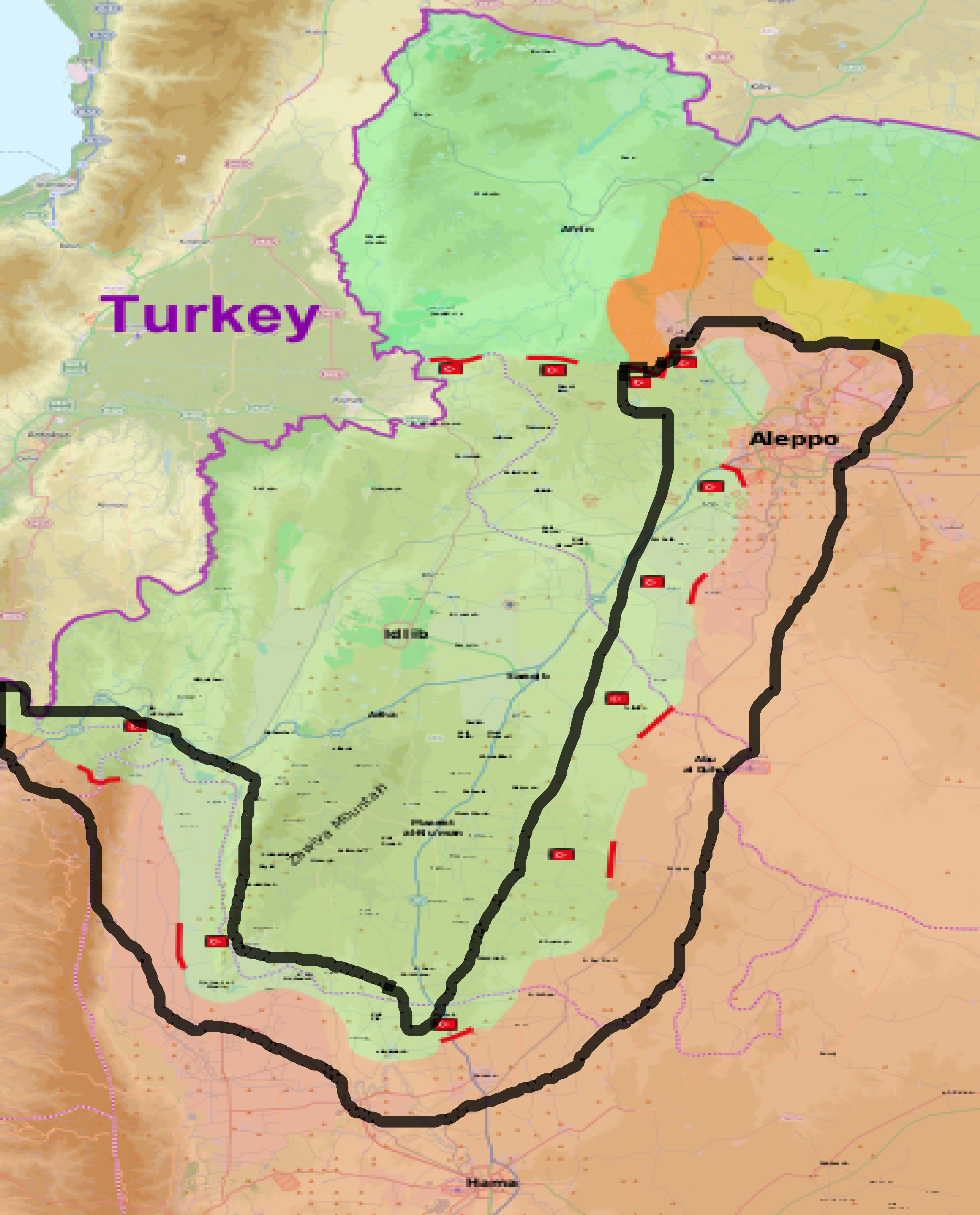 Demilitarized area of Idlib